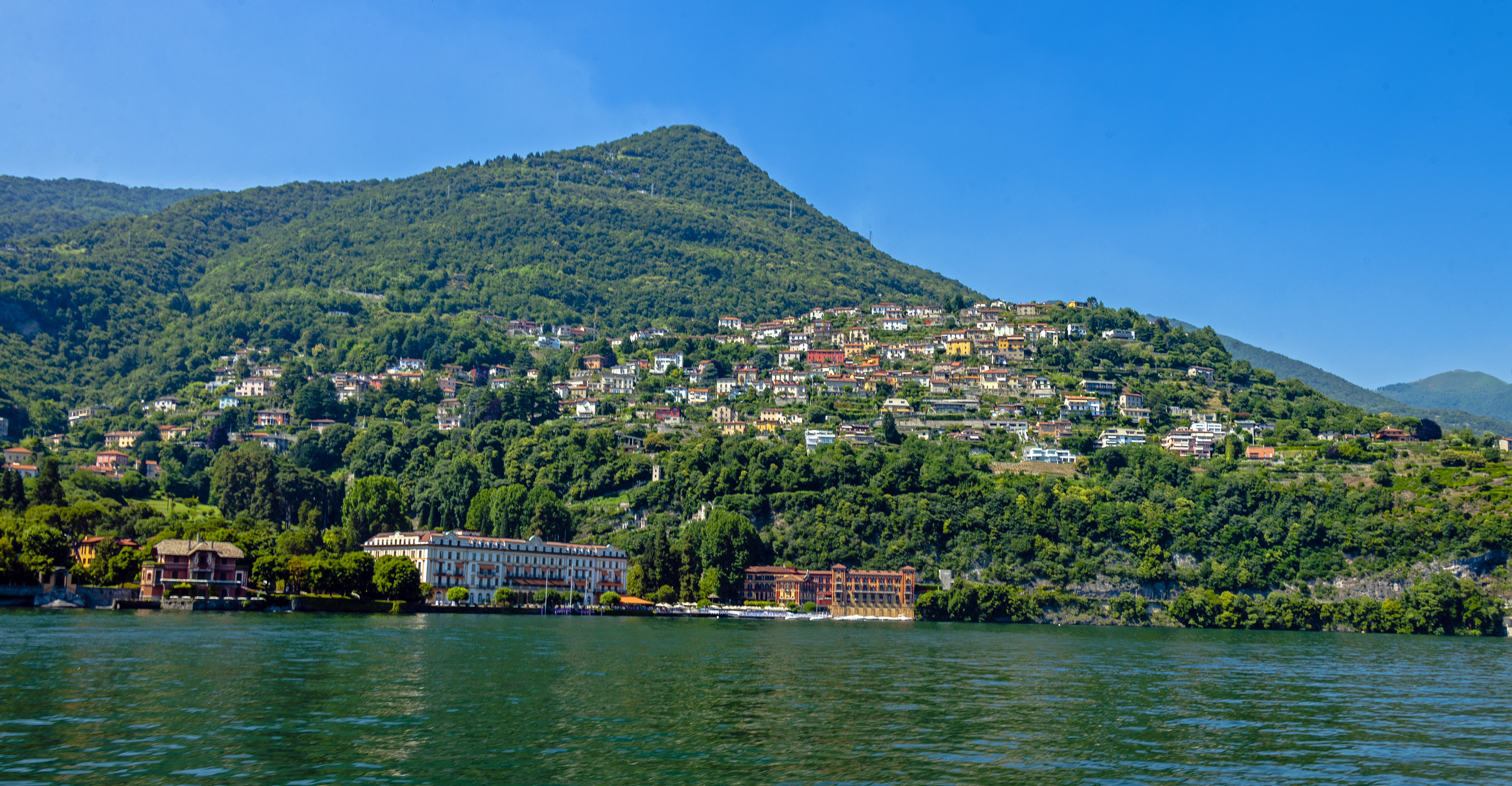 Cernobbio, with Villa d'Este (Cernobbio)|Villa d'Este along the lakeshore, from the ferry up Lake Como